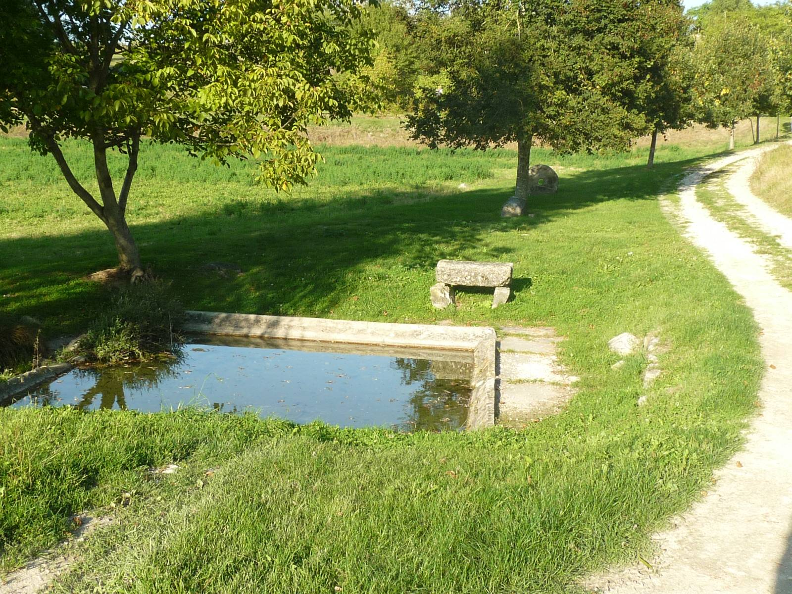 fount of Charmant, Charente, SW France